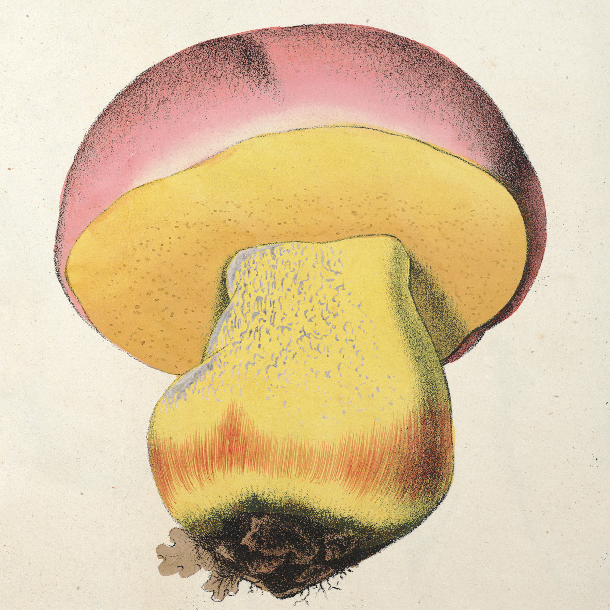 Boletus regius sensu Krombholz, Krombholz mykologische Hefte Taf. 37; Naturgetreue Abbildungen und Beschreibungen der essbaren, schädlichen und verdächtigen Schwämme (Praga, 1831-1846)